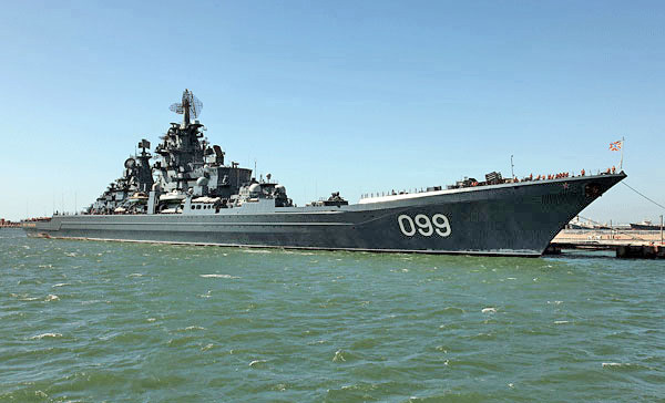 Russian Battle Cruise Pyotr Velikiy 099 (Peter the Great)